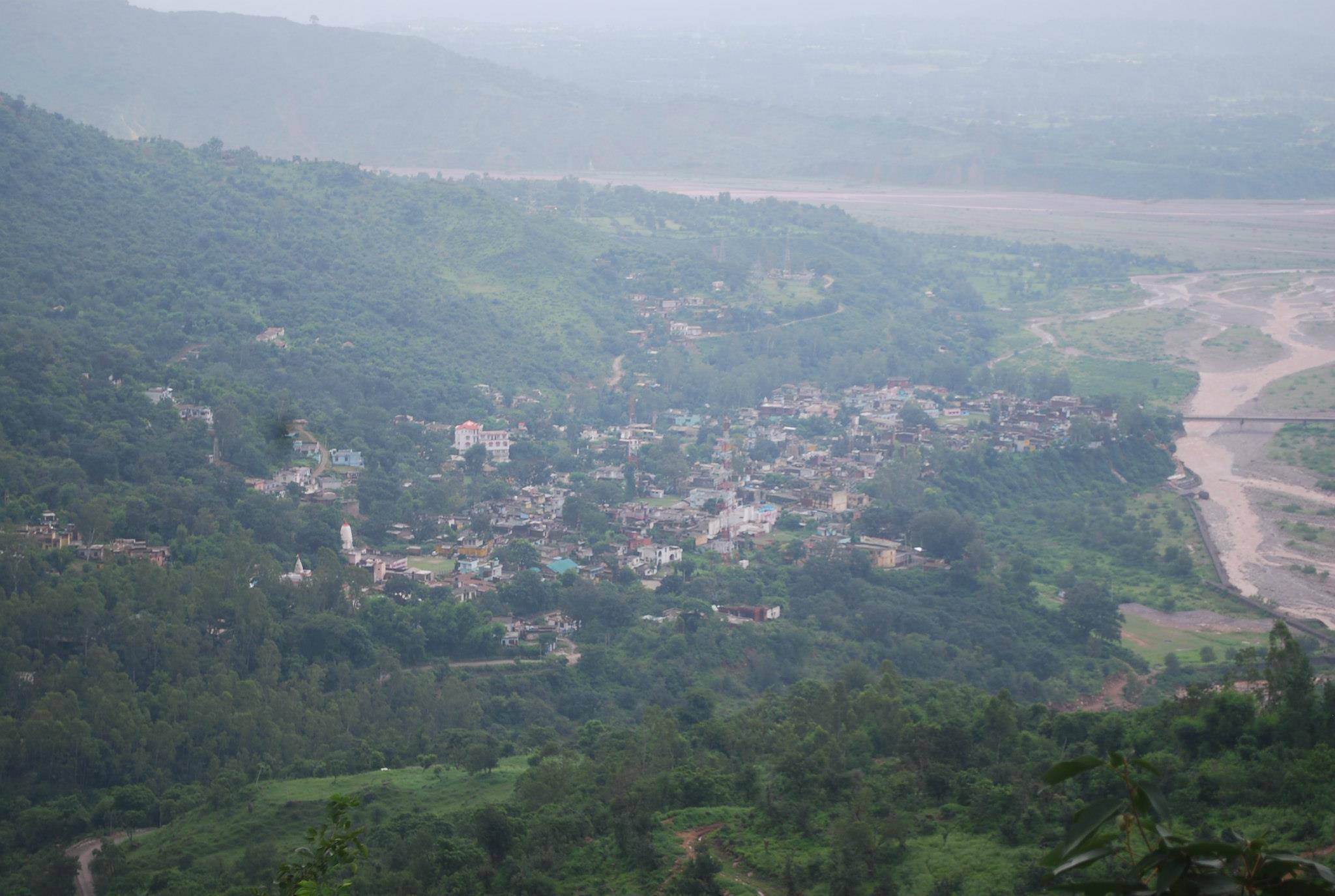 A View of Billawar Town from Gortha Village.